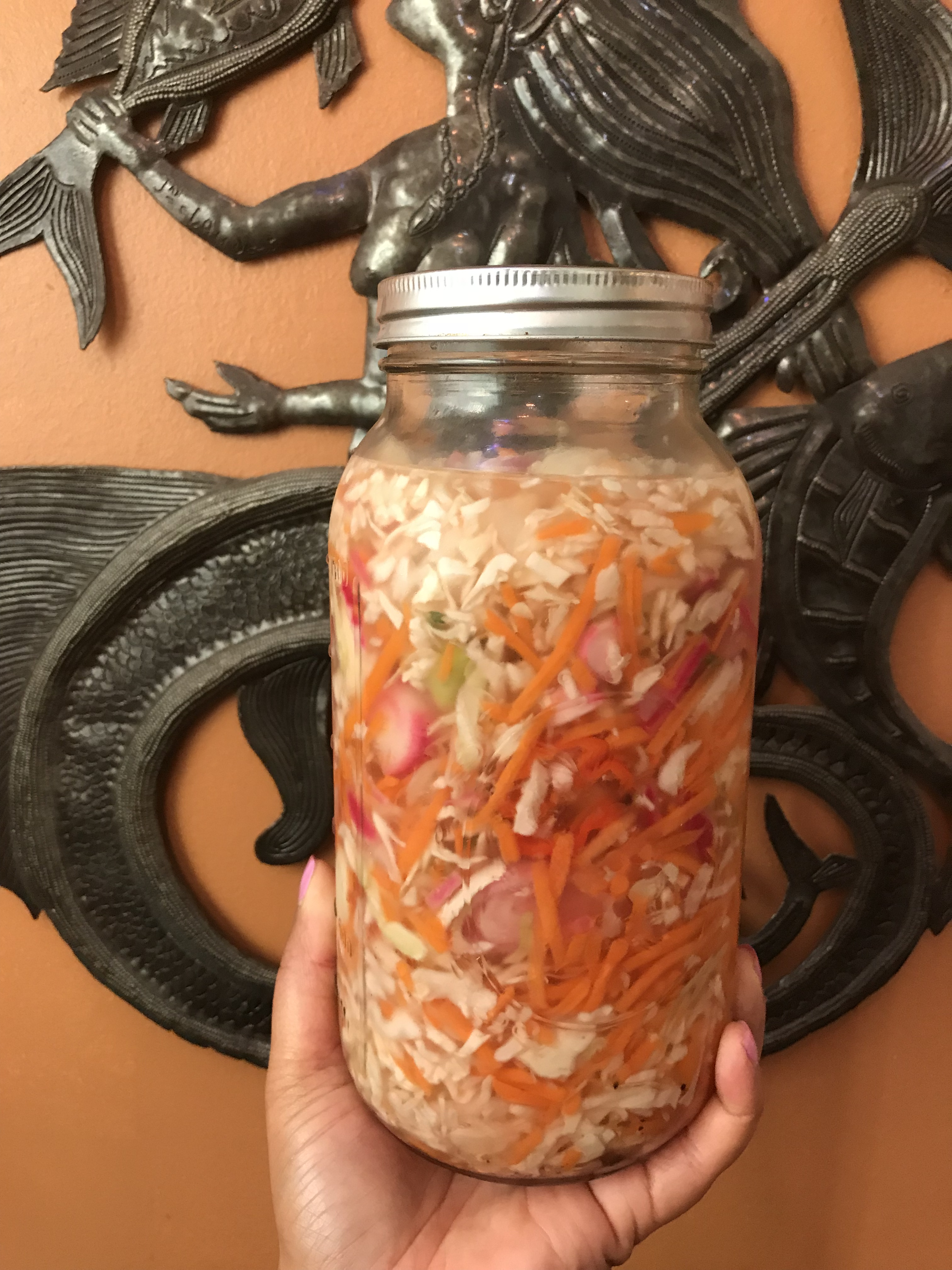 Haitian pickled vegetables hot sauce